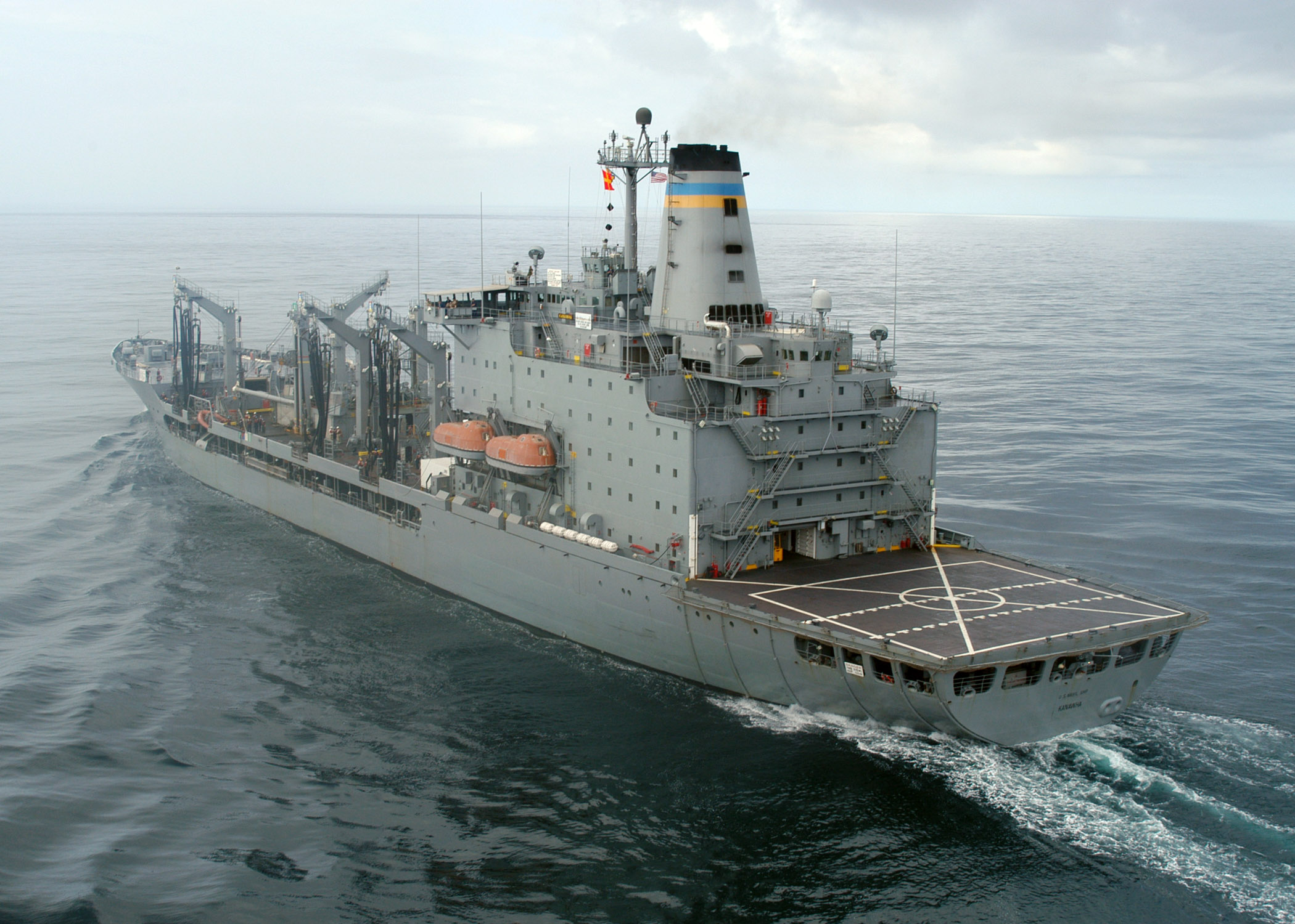 Atlantic Ocean (Aug. 13, 2003) — The Military Sealift Command, oiler USNS Kanawha (T-AO-196) pulls alongside USS Theodore Roosevelt (CVN-71) for a Replenishment at Sea.